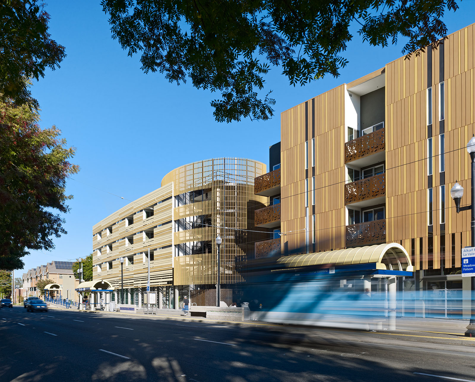 La Valentina Station in Sacramento, CA, provides green affordable family housing at a light rail stop.